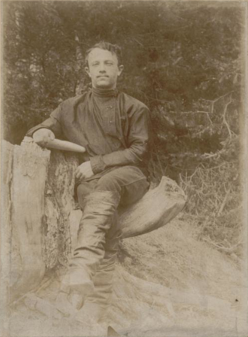 Young Aaron Baron right before leaving Russia for the US